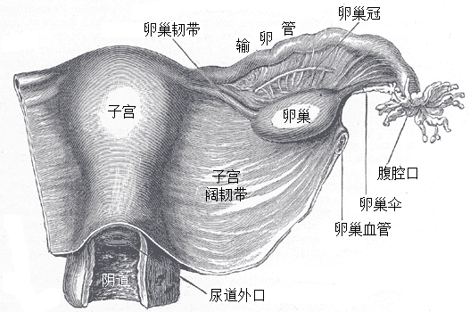 Uterus and right broad ligament, seen from behind. The broad ligament has been spread out and the ovary drawn downward.